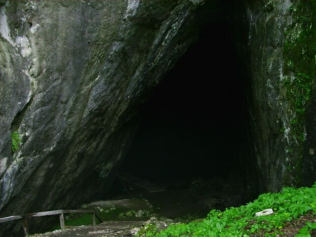 Djevojačka pećina cave near Kladanj, BiH